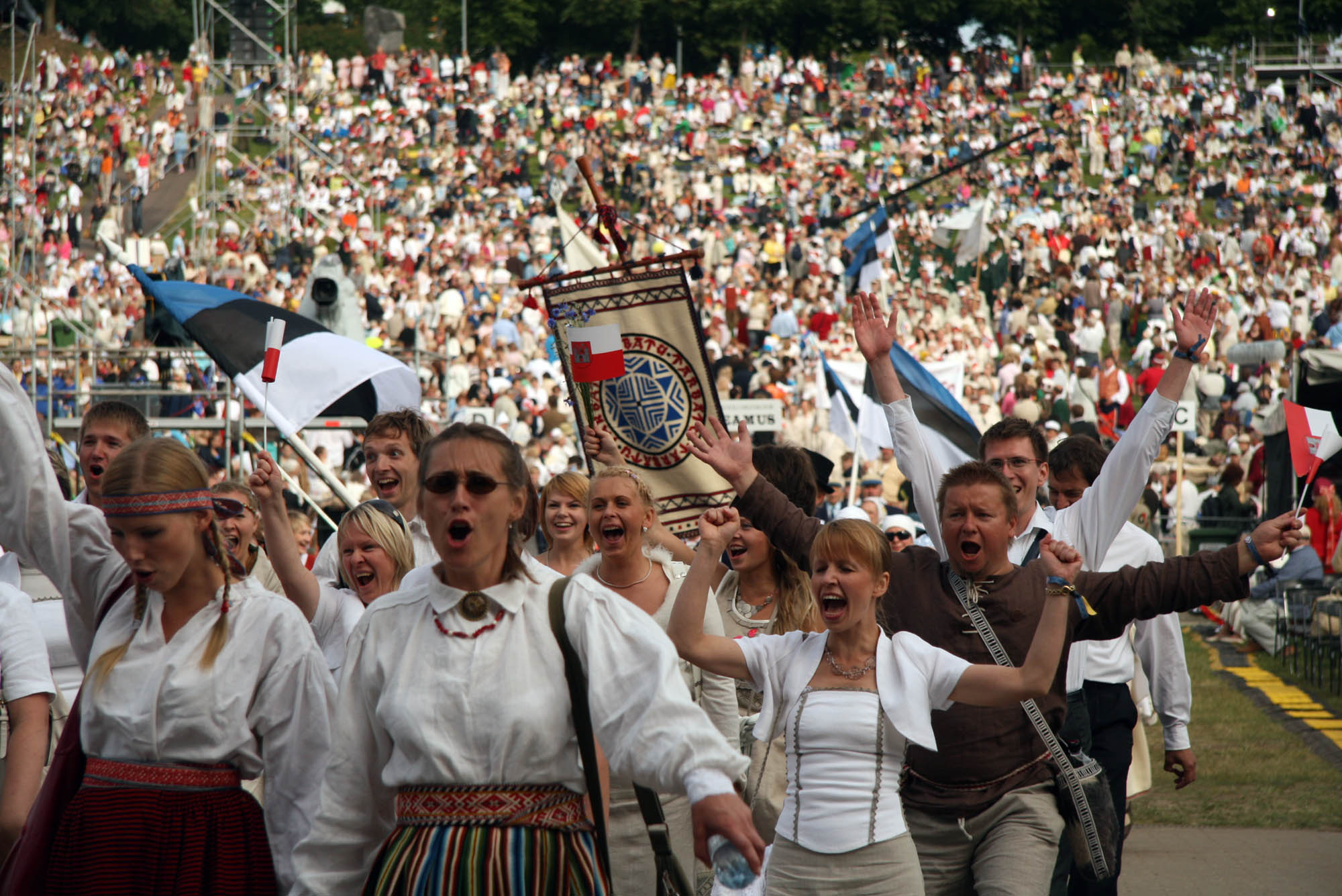 Tallinn song festival 2009